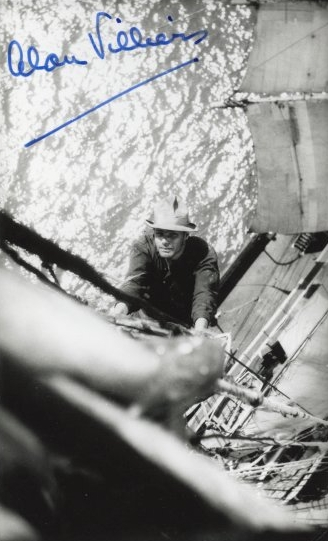 Alan Villiers going aloft on the Finnish sailing ship 'Grace Harwar' in 1929.